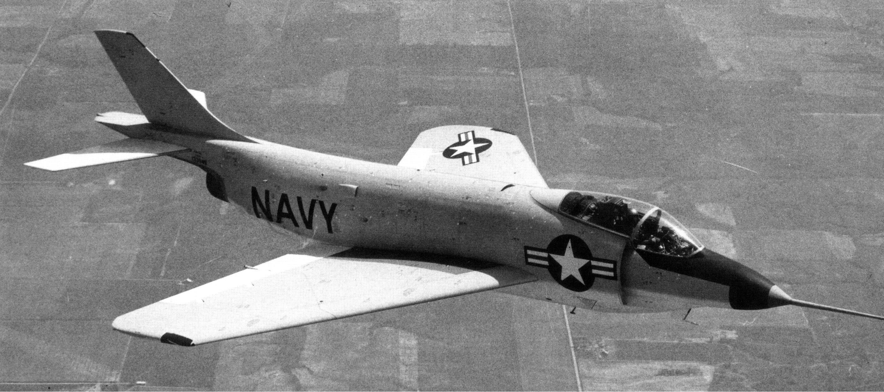 A U.S. Navy McDonnell F3H Demon fighter in flight.